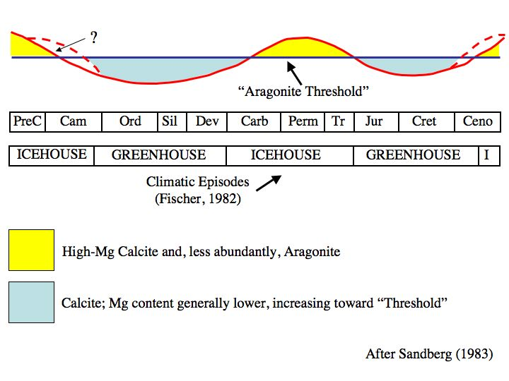 Image created by Mark A. Wilson (Department of Geology, The College of Wooster). [1]